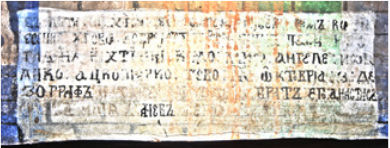 Ascension_of_Jesus_Church_in_Drenovo_Fresco.